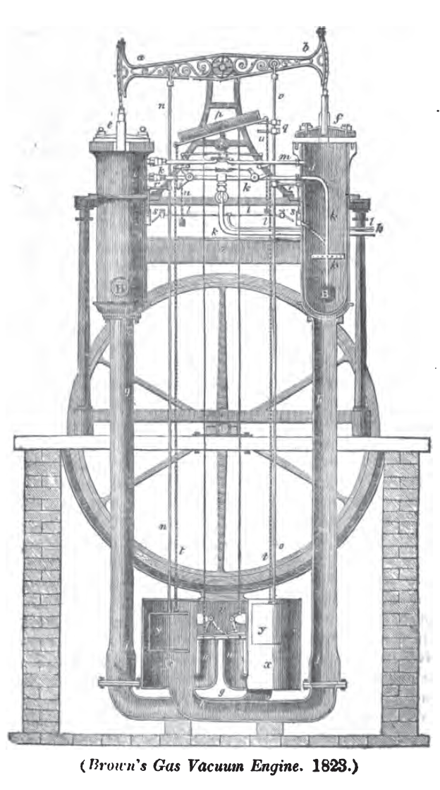 page 260 of History and Progress of the Steam Engine